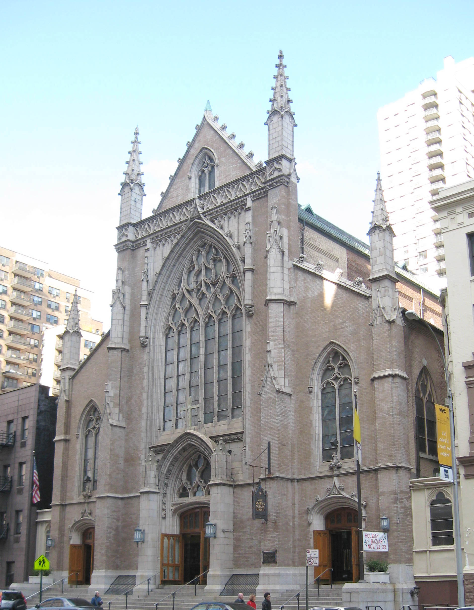 Looking north across en:79th Street (Manhattan) at St Monica's Roman Catholic Church on a sunny afternoon. ZIP 10021.